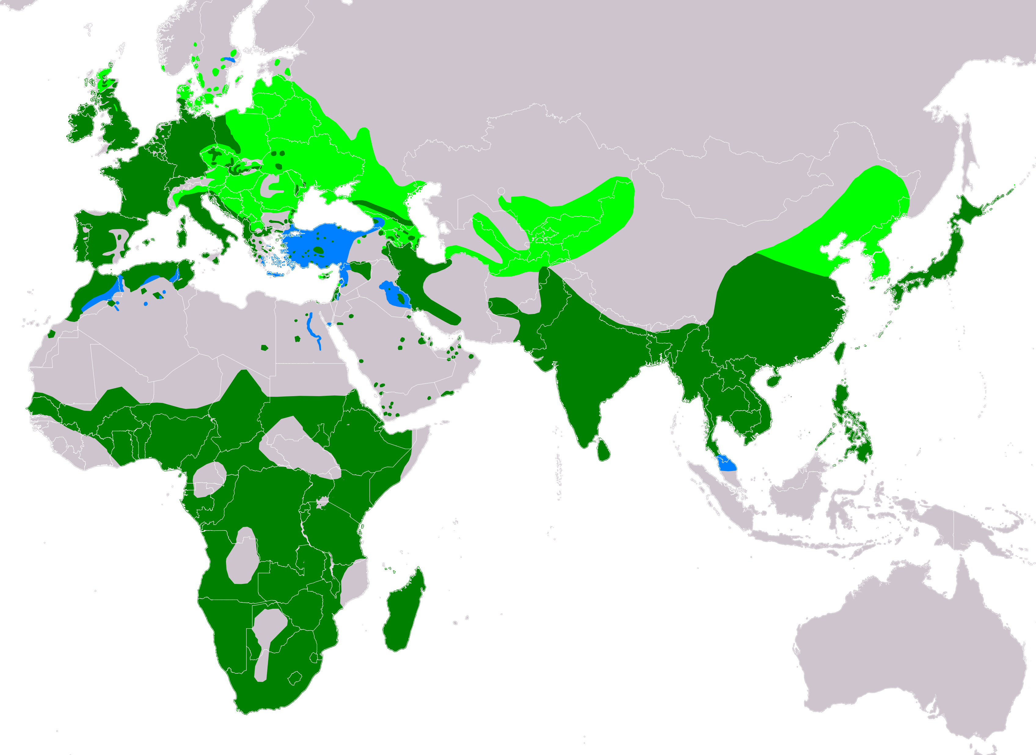 Distribution map of little grebe (Tachybaptus ruficollis) according to IUCN version 2019-2 ; key: Legend: Extant, breeding (#00FF00), Extant, resident (#008000), Extant, non-breeding (#007FFF), Extant & Vagrant (seasonality uncertain) (#FF00FF)